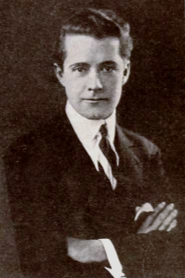 American actor George LeGuere (sometimes credited as George Le Guere), on page 21 of the December 15, 1917 Exhibitors Herald.